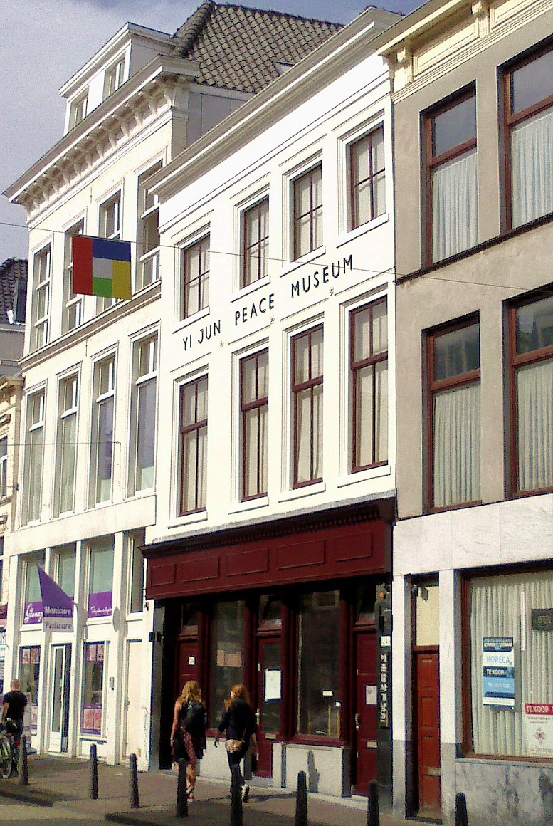 Yi Jun Peace Museum, The Hague, the Netherlands